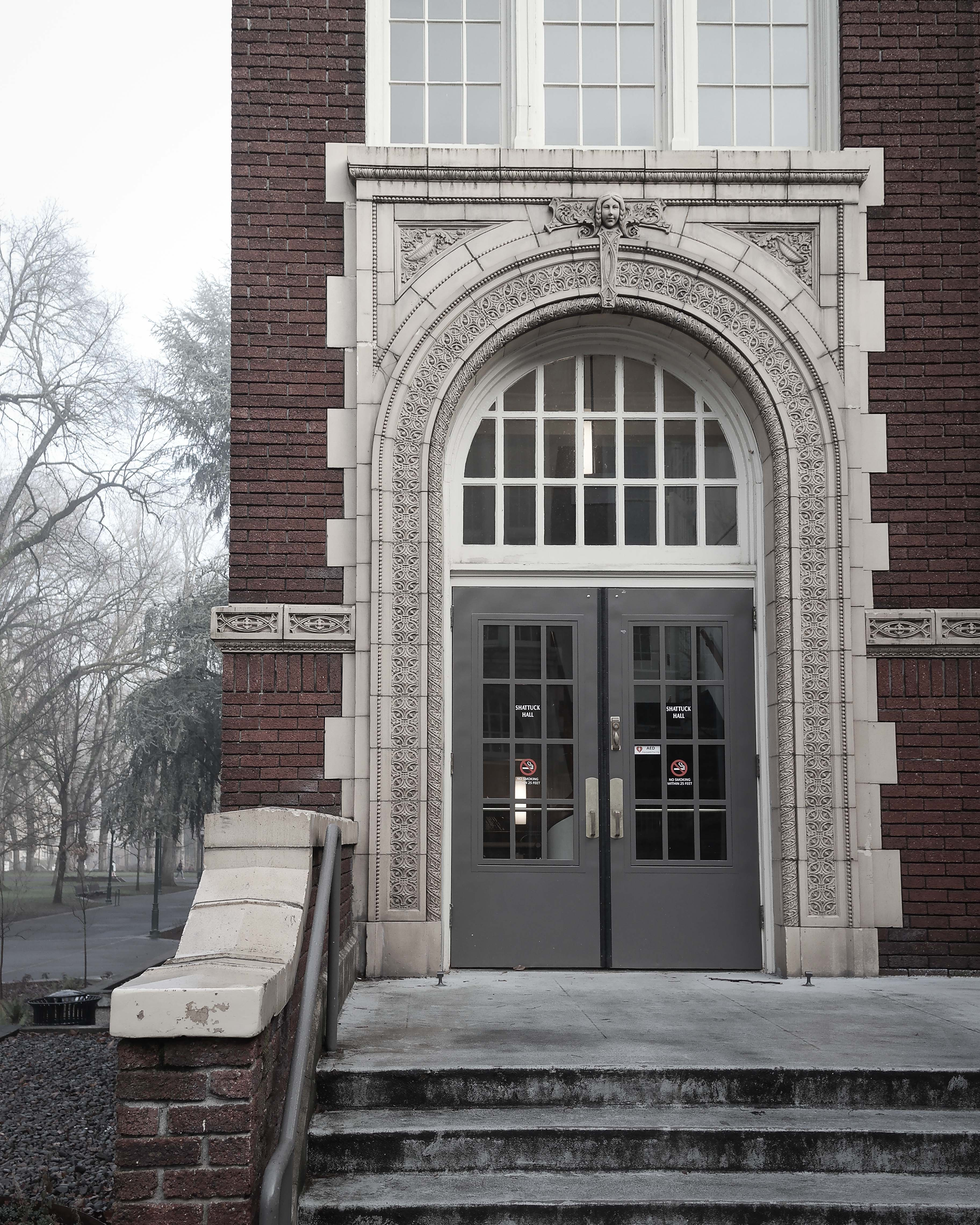 Details of Shattuck Hall at Portland State University